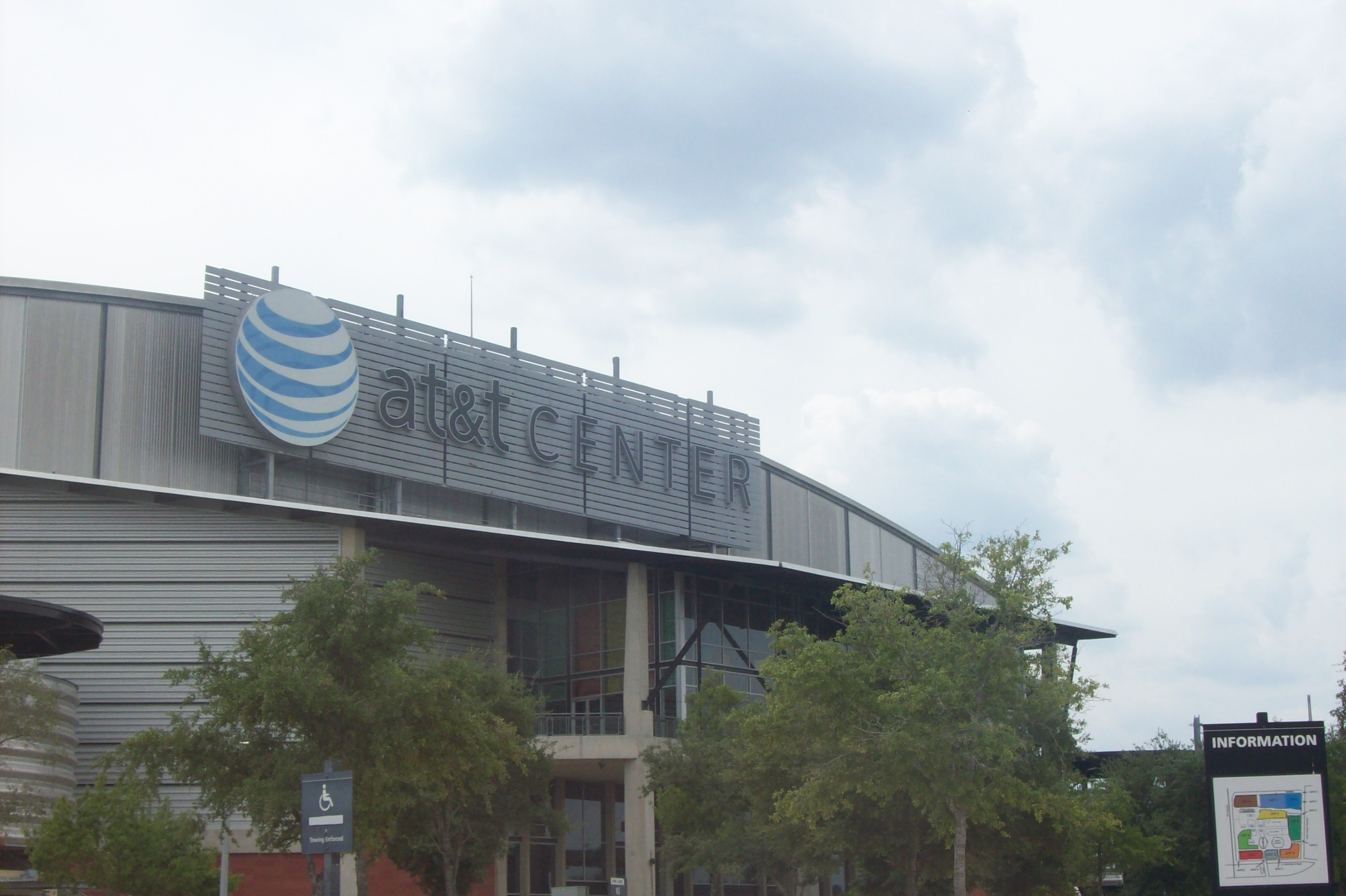 Picture taken by me going to WWE Draft 08 at ATT Center